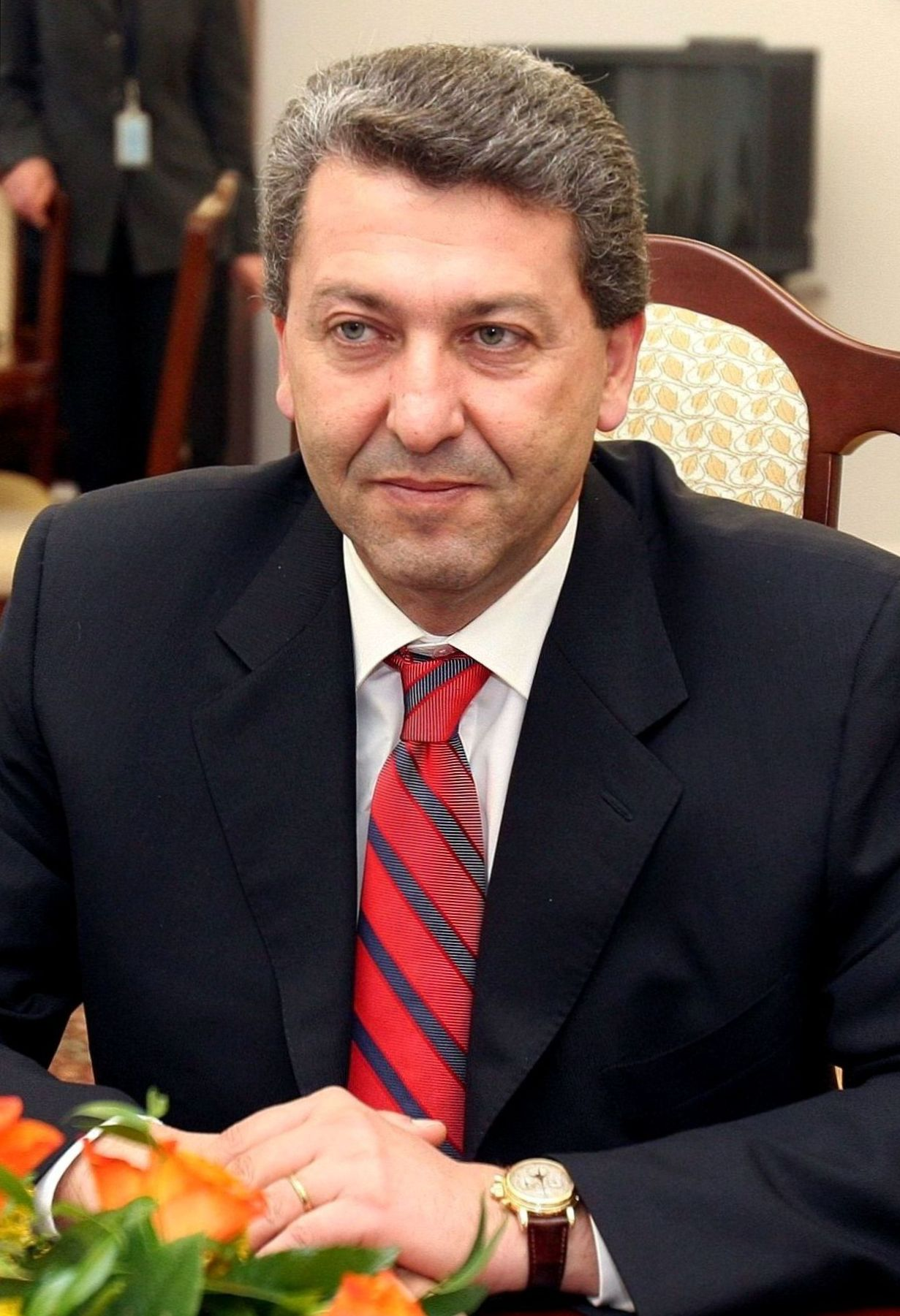 Minister of Foreign Affairs of Cyprus Yiorgos Lillikas in the Polish Senate